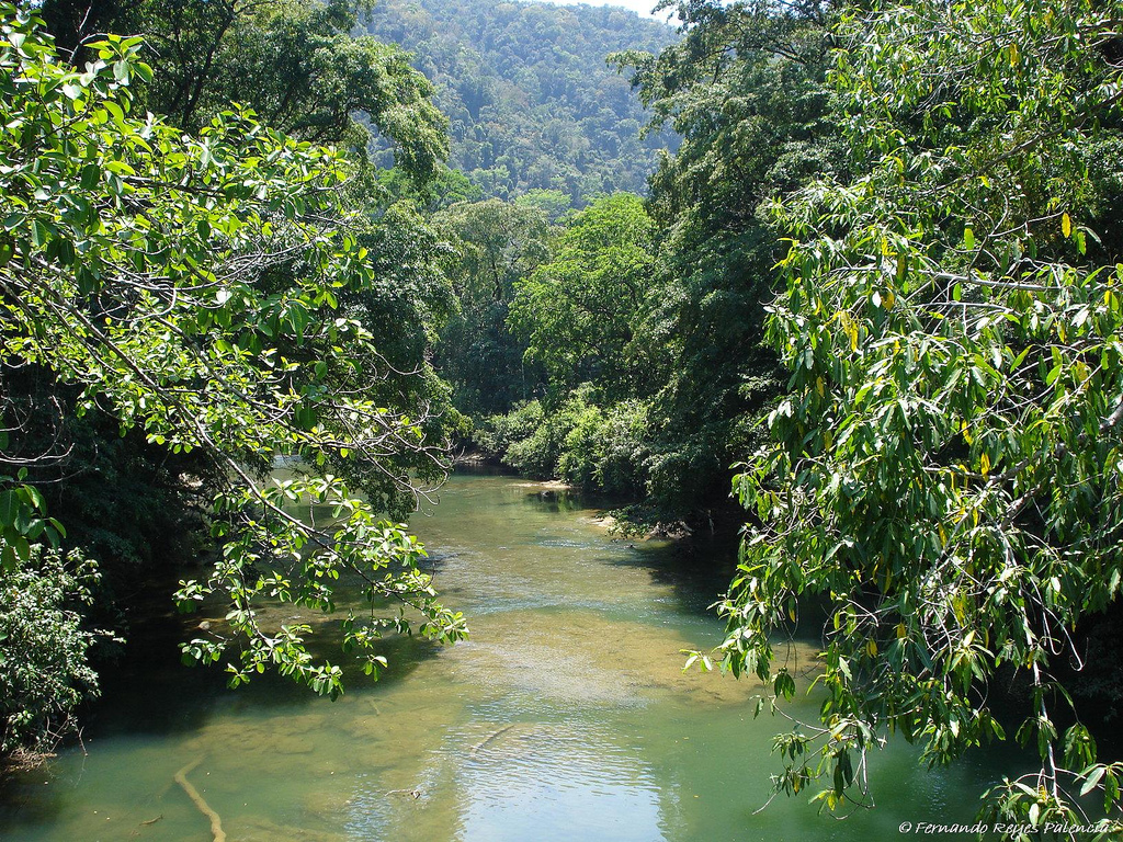 Sarstoon River. This is the river that marks the border between Guatemala and Belize. The mountain in the background is in Belize, the right river bank is in Izabal, the left river bank is in El Petén. Picture taken in Modesto Méndez, Izabal, Guatemala.